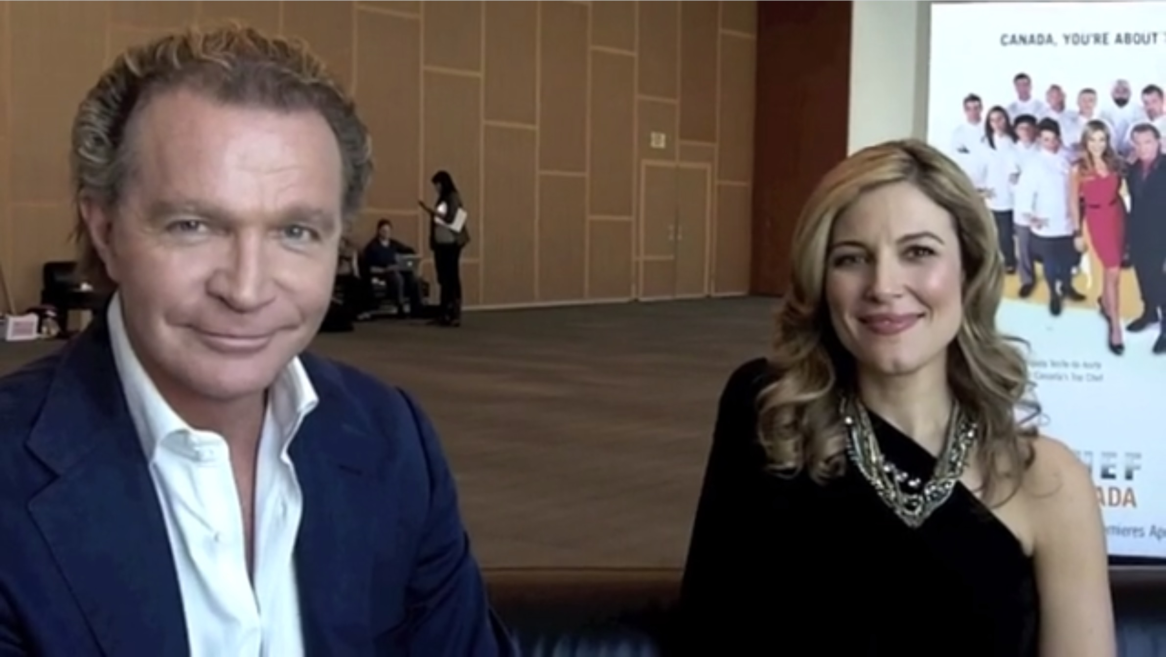 Top Chef Canada hosts Mark McEwan and Thea Andrews discuss making the new Food Network Canada series with Good Food Revolution's Malcolm Jolley.